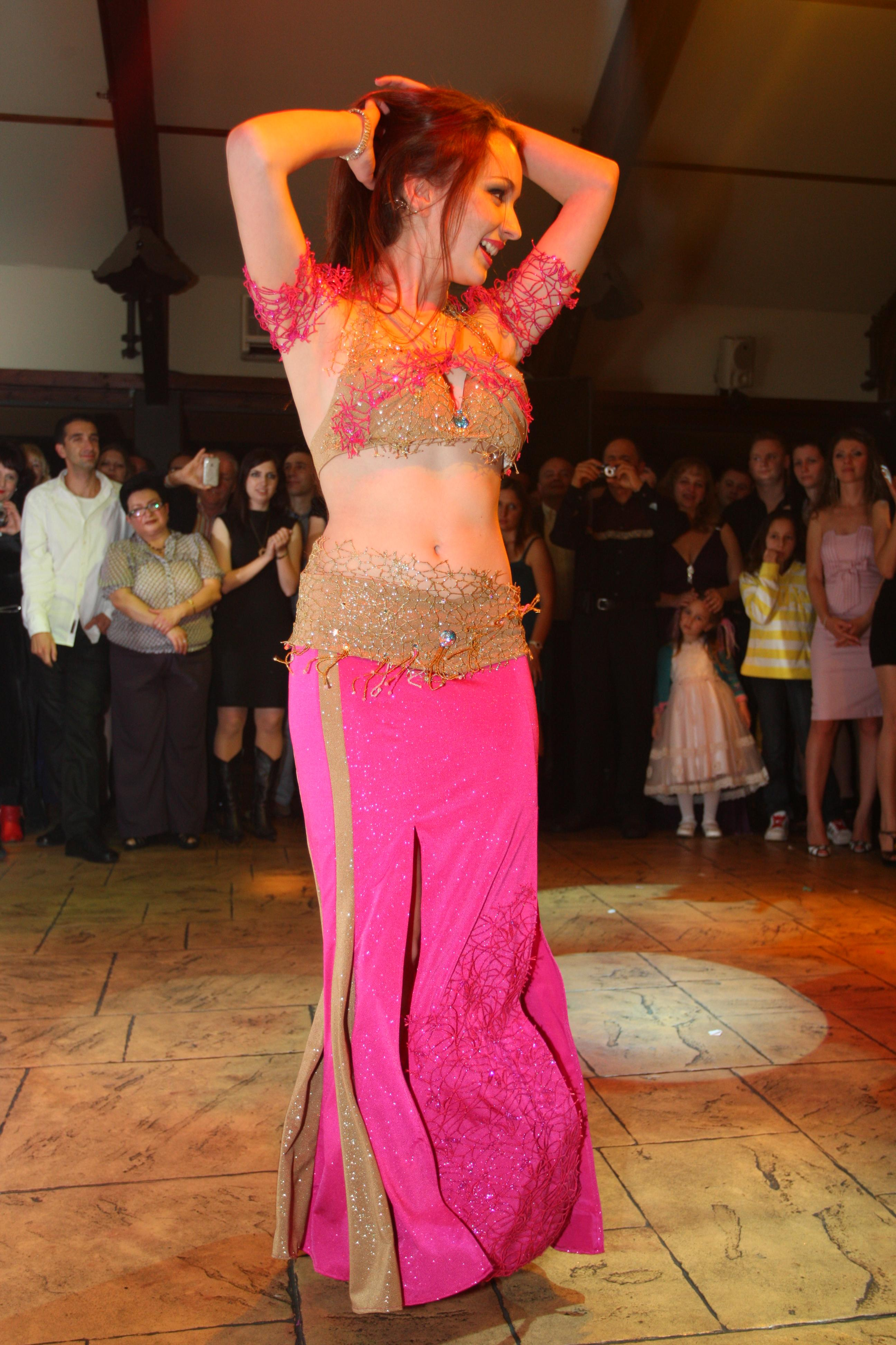 Katya Malaya